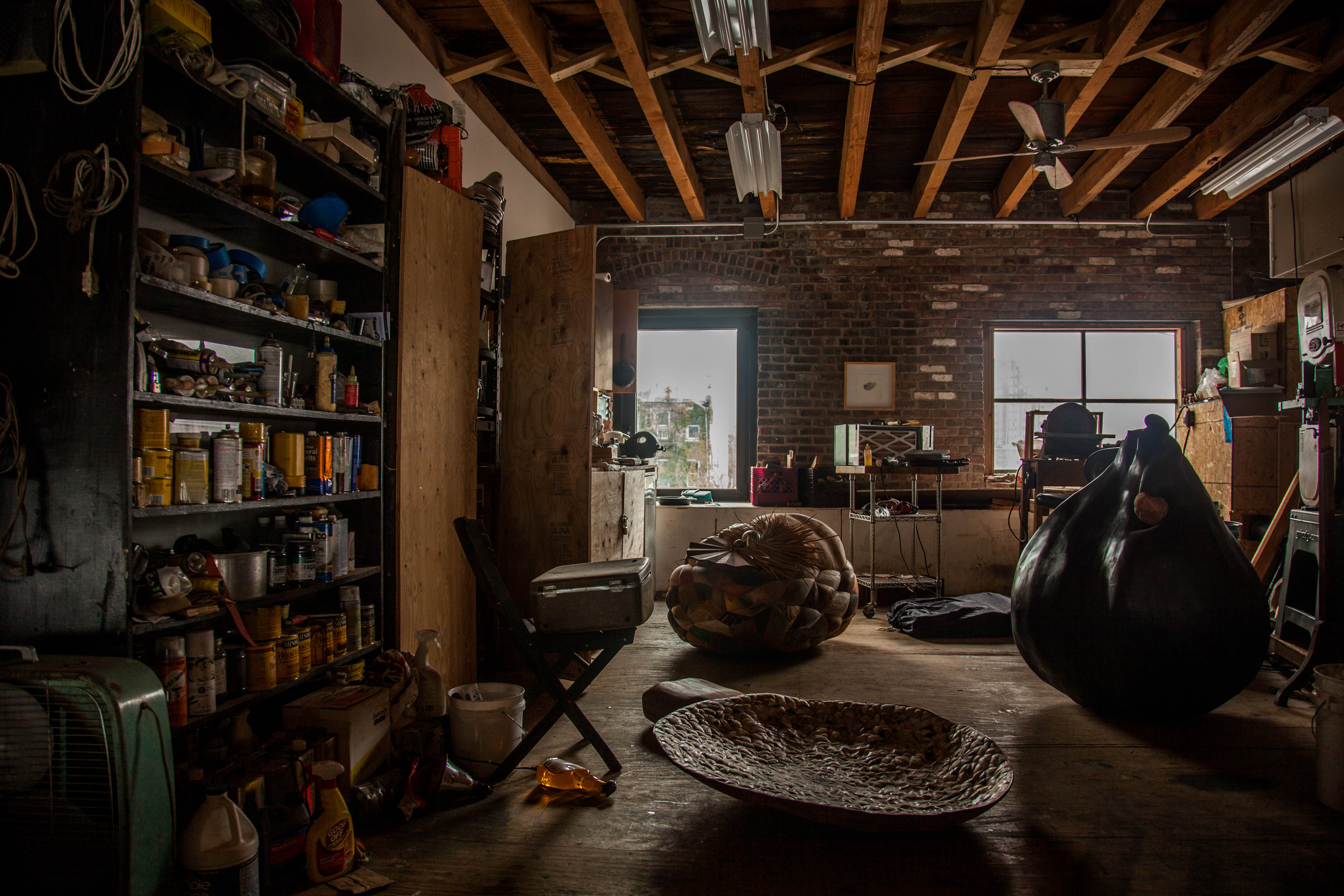 A resident woodworker’s studio at the Pioneer Works Center For Art and Innovation, Red Hook, New York City